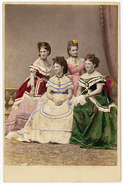 Marie Carandini, born Maria Burgess, (1 February 1826 – 13 April 1894) was an English-born Australian opera singer.Format: Hand-coloured cabinet photograph Notes: For biographical information, see: Civilising the colonies : pioneering opera in Australia / Alison Gyger. Sydney : Opera-Opera (Pelinor), 1999 Find more detailed information about this photograph: .au/item/itemDetailPaged.aspx?itemID=421670 Search for more great images in the State Library's collections: .au/search/SimpleSearch.aspx From the collection of the State Library of New South Wales